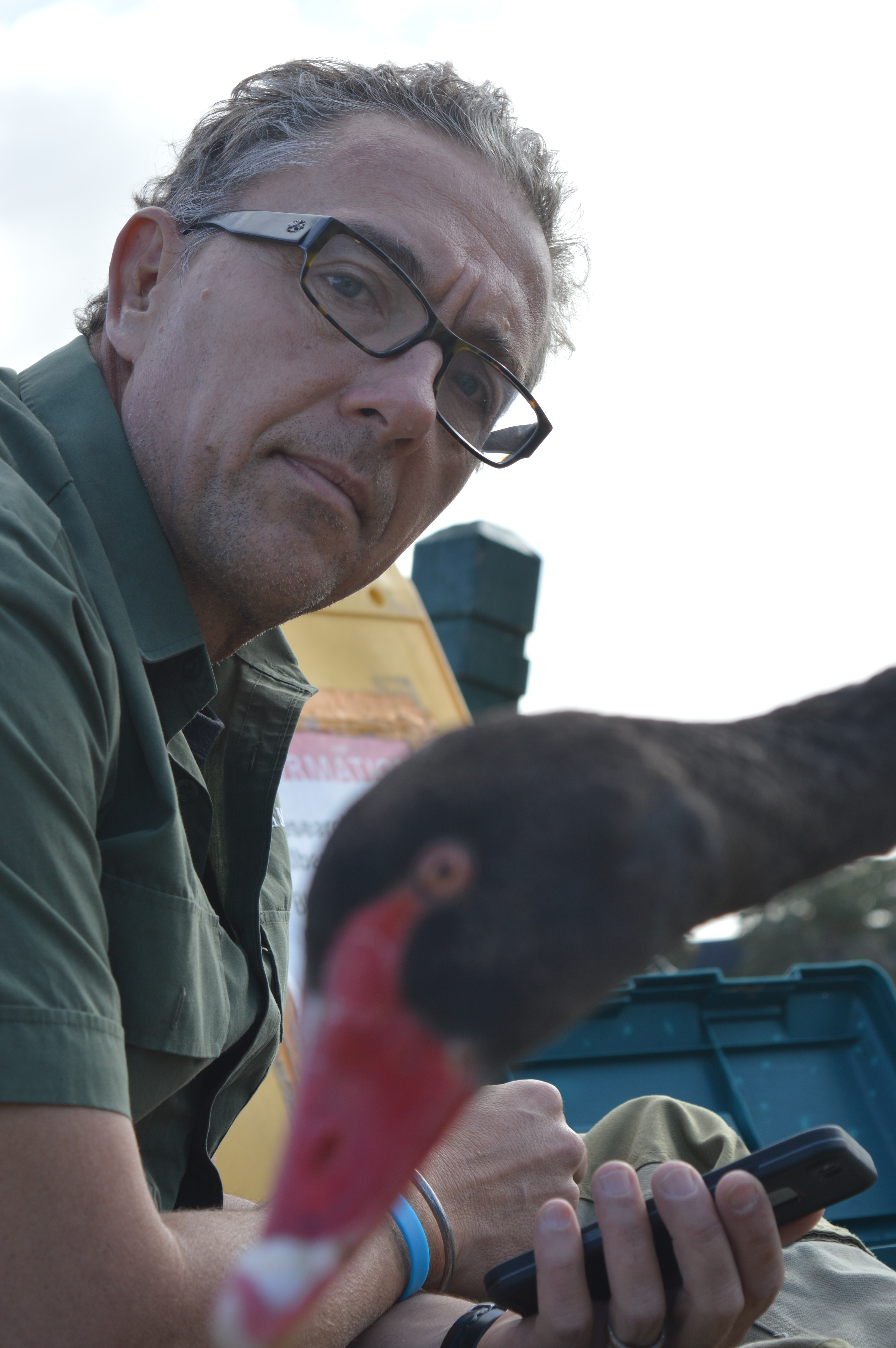 Australian ornithologist and evolutionary ecologist Raoul Mulder with a black swan (Cygnus atratus) at Albert Park Lake, Melbourne. Photographed by Andrew Katsis on 7 October, 2015.